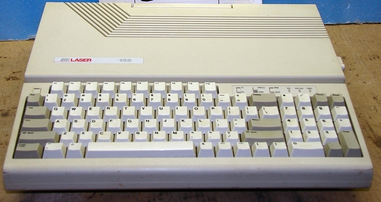 Laser 128 Homecomputer